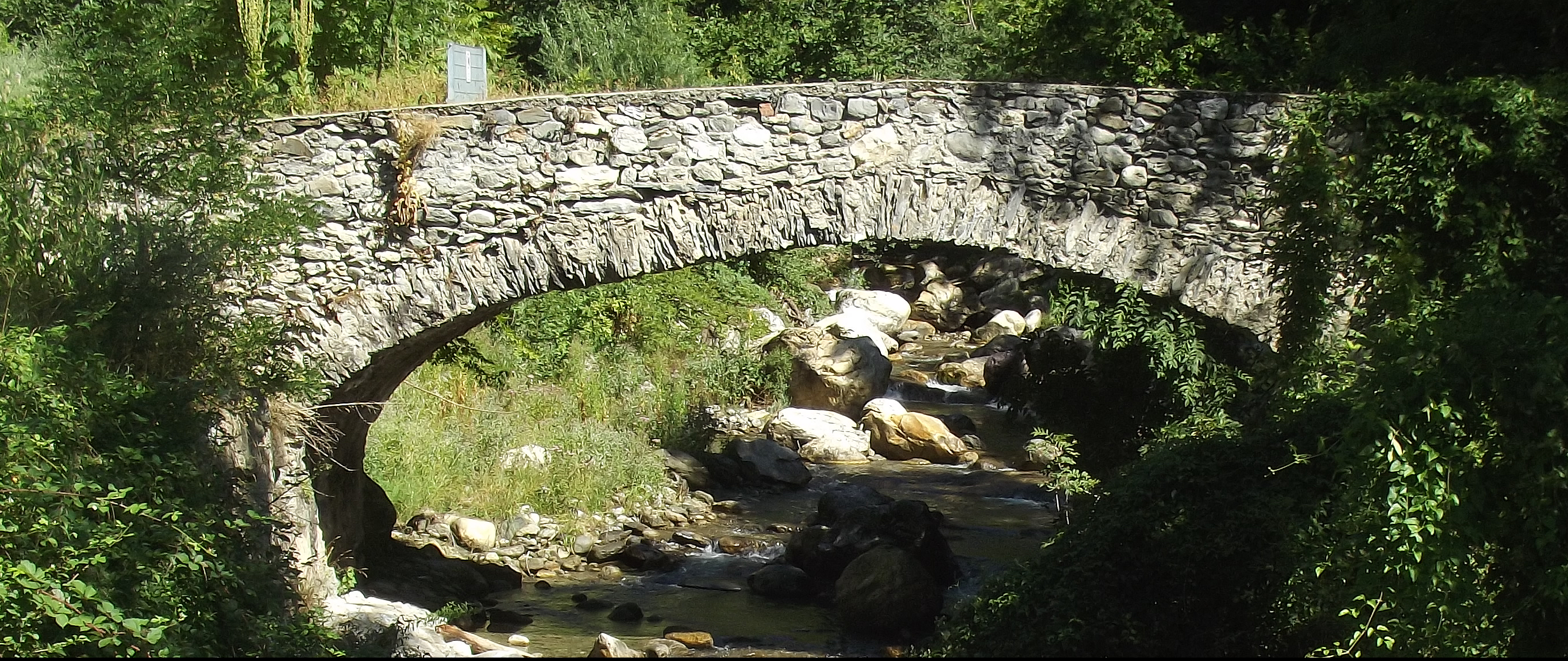 Old bridge on the Cant near Fedio (Demonte, CN, Italy)